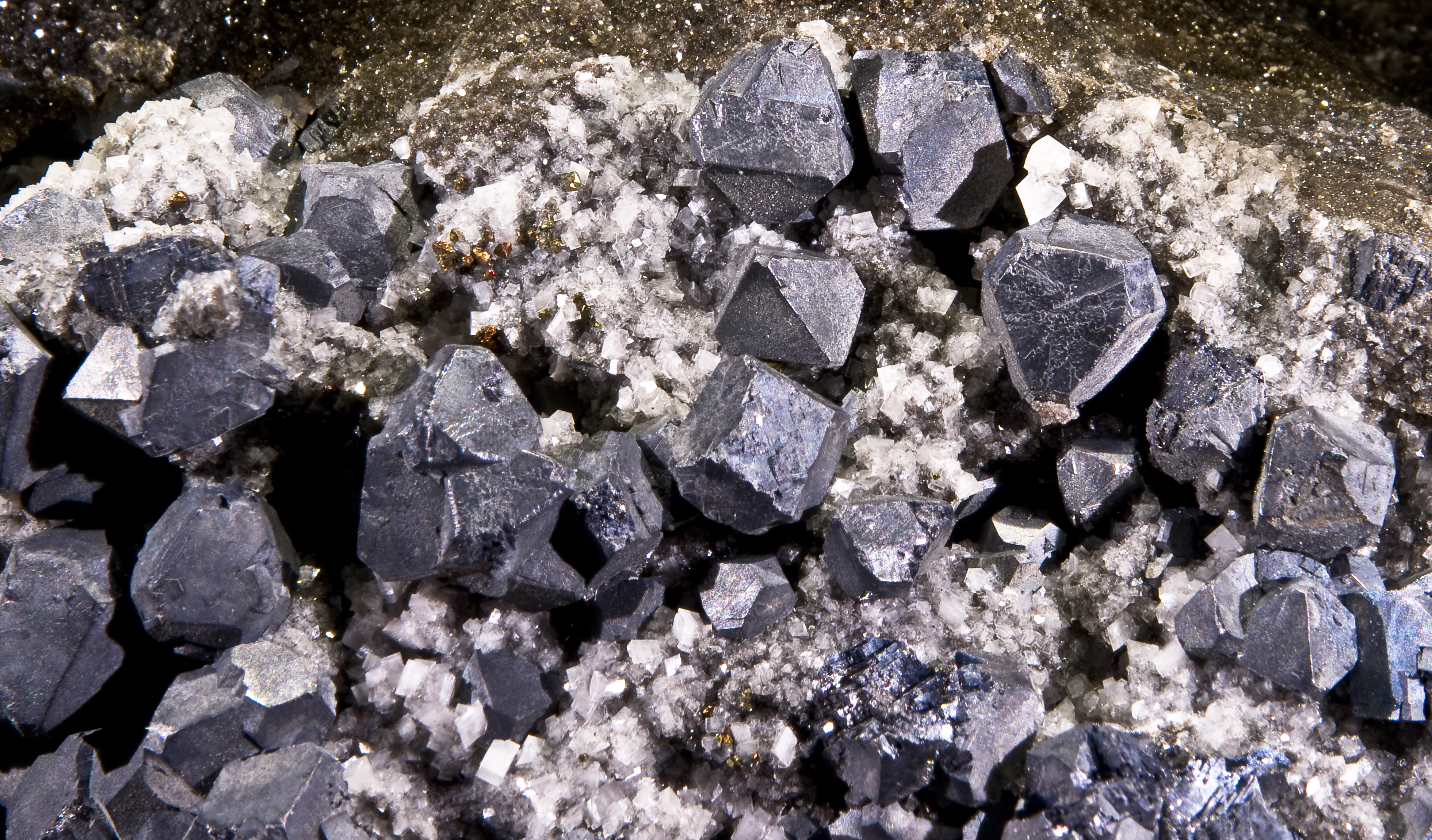 Galena with chalcopyrite and dolomite Locality : Joplin Field, Tri-State District, Jasper County, Missouri, USA Size : view 8x5cm